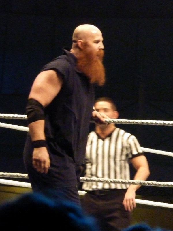 Erick Roawn at a WWE show on November 16, 2013 in Minehead.